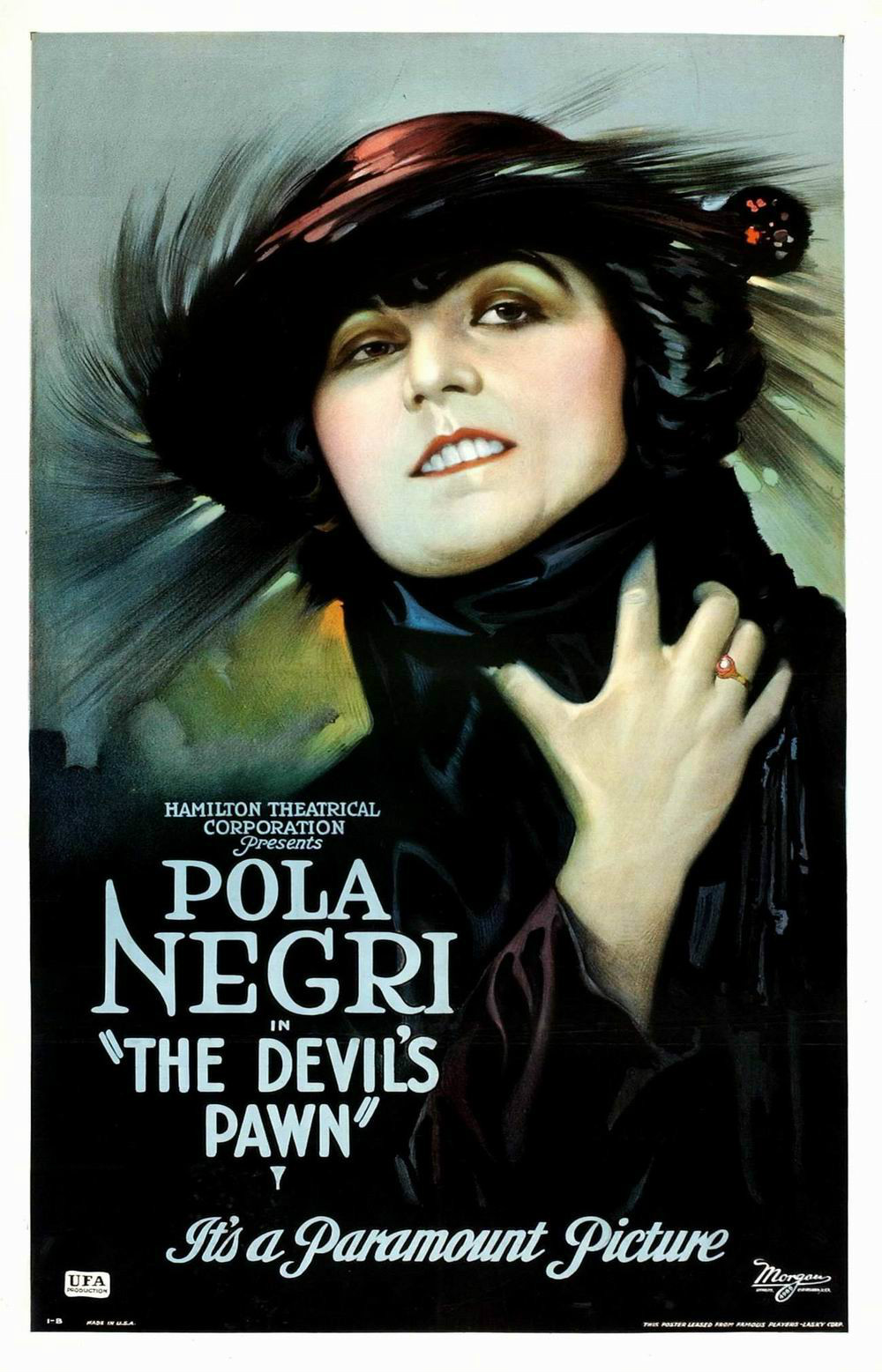 1922 US poster for The Devil's Pawn (1918) (English title for the German film Der Gelbe Schein) starring Pola Negri.